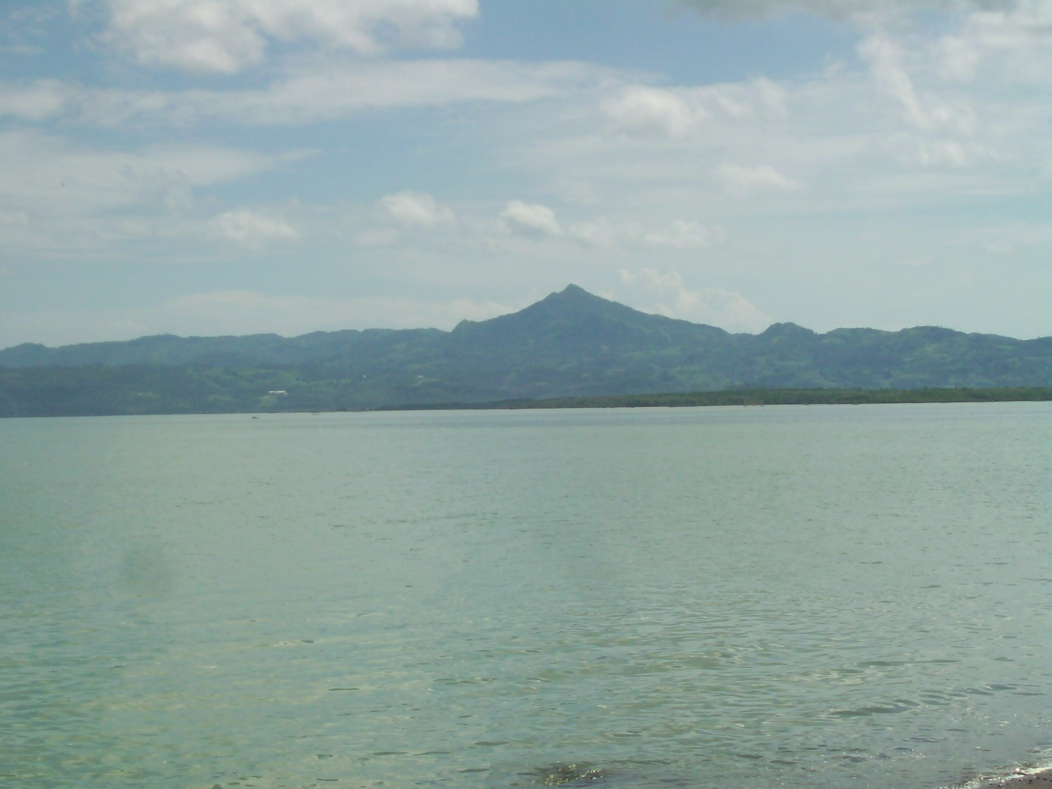 Ormoc Bay facing Merida, Leyte with the Magsanga mountain peak. Cebuano: Luok sa Ormoc atbang sa Merida, Leyte apil ang bukid sa Magsanga